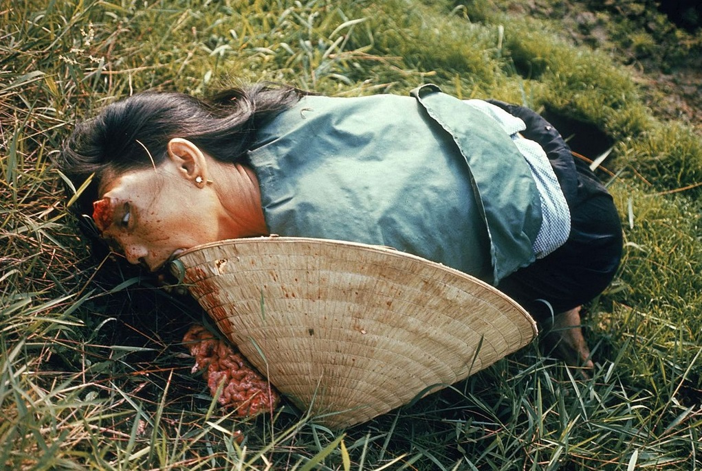 Mrs. Nguyễn Thị Tẩu (Chín Tẩu) killed by US soldiers, part of her brain is lying nearby. Source for the name is found here.